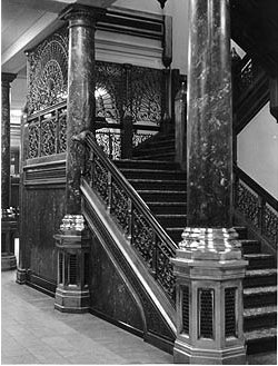 Interior US Post Office, Charleston, South Carolina